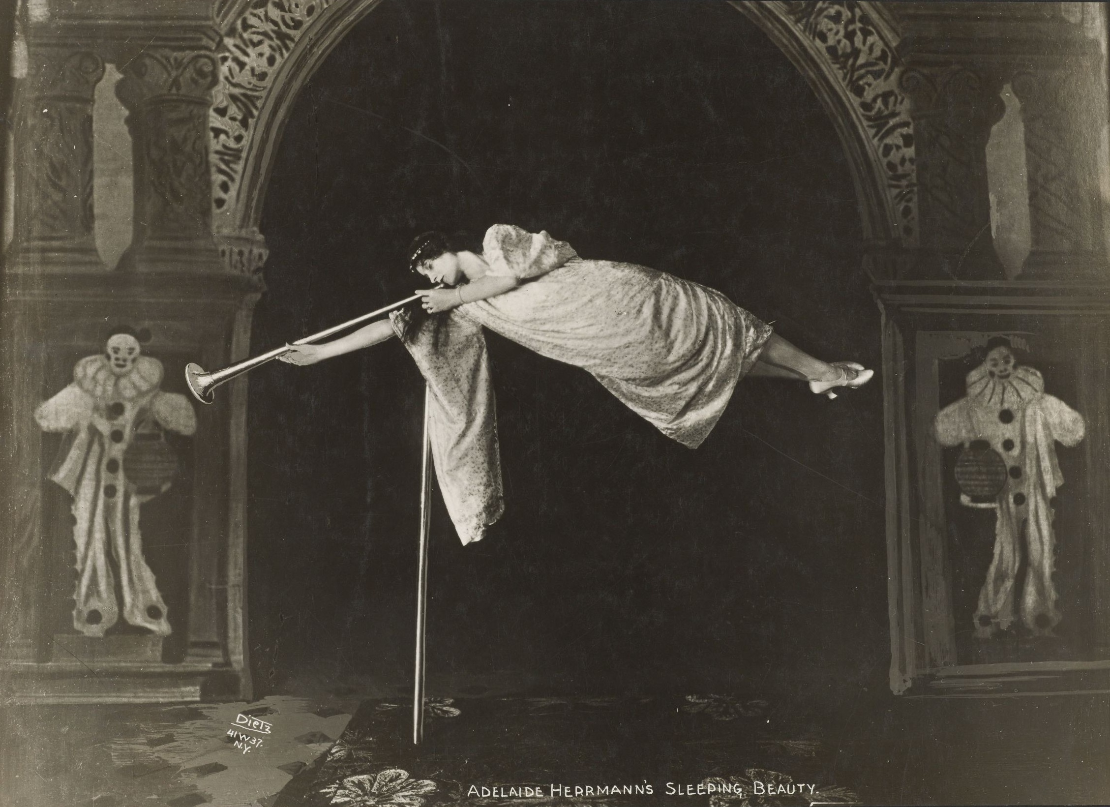 Photograph of Actress Adelaide Herrmann as Sleeping Beauty. Undated; an ad for this performance indicates year as 1903. Theatrical Portrait Photographs (TCS 28). Harvard Theatre Collection, Houghton Library, Harvard University